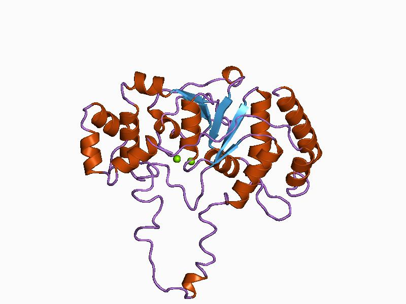 Cartoon representation of the molecular structure of protein registered with 1a77 code.